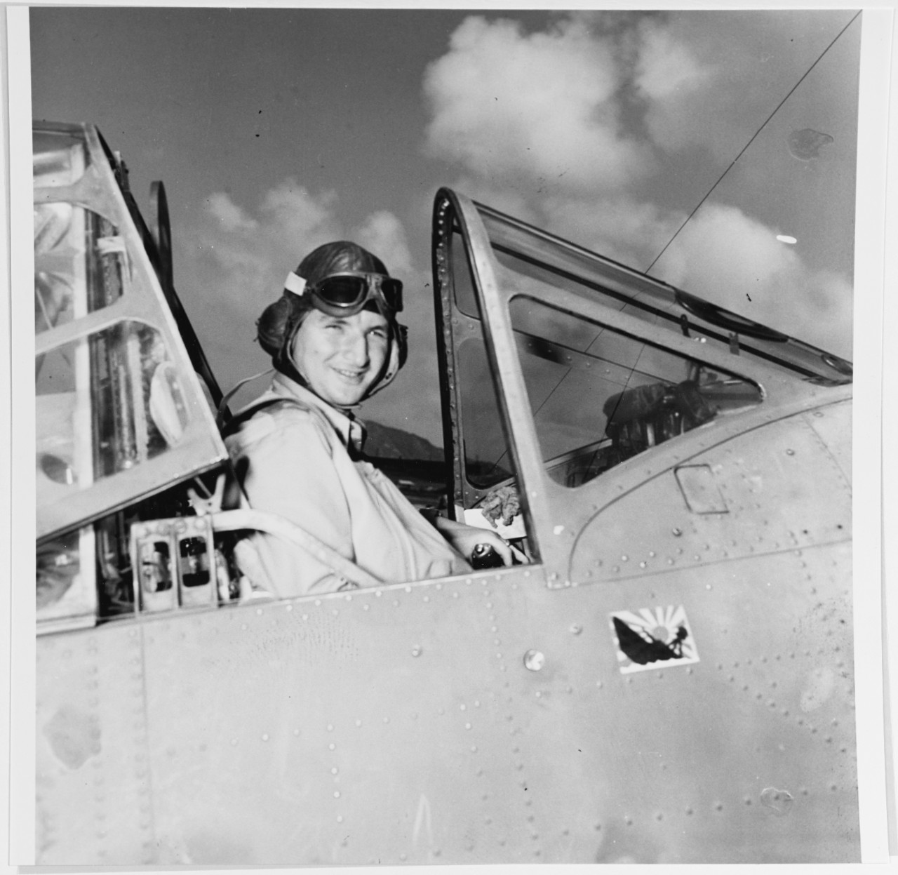 Seated in his Douglas TBD-1 Devastator torpedo plane, at Naval Air Station Ford Island, Pearl Harbor, 24 May 1942. Massey was killed in action on 4 June 1942, while leading VT-3 in an attack on the Japanese carrier force during the Battle of Midway. Note Victory flag marking on the plane, representing the sinking of a Japanese ship during the Marshall Islands Raid, 1 February 1942, when he was Executive Officer of Torpedo Squadron Six (VT-6) on USS Enterprise (CV-6). Official U.S. Navy Photograph, now in the collections of the National Archives.